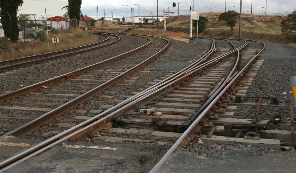 Mixed gauge trackwork, North Geelong, Victoria, Australia. Broad and standard gauges